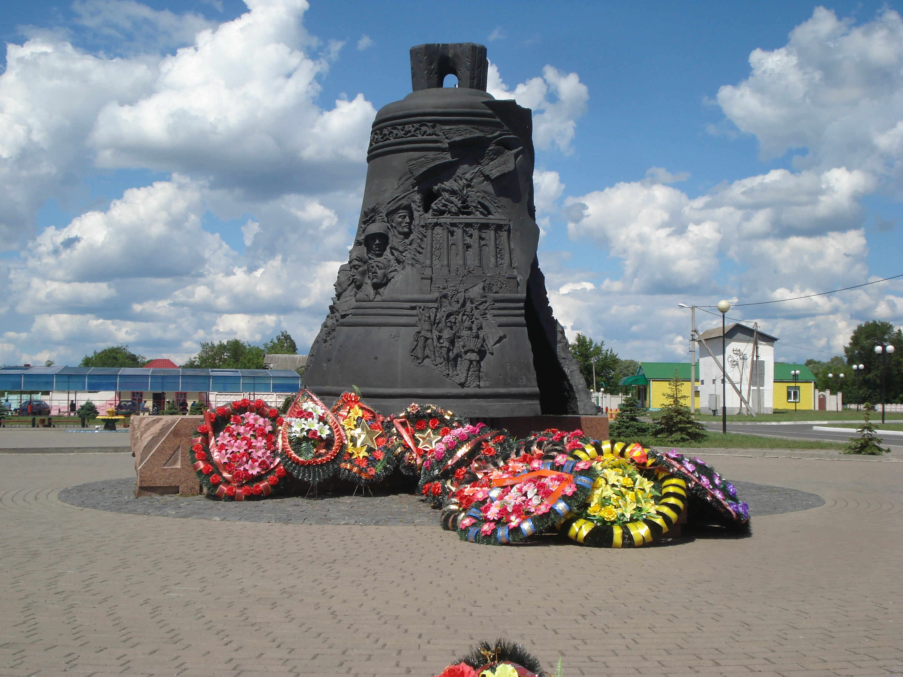 Monument for the soldiers of the Second World War in Soviet Street, Svietlahorsk